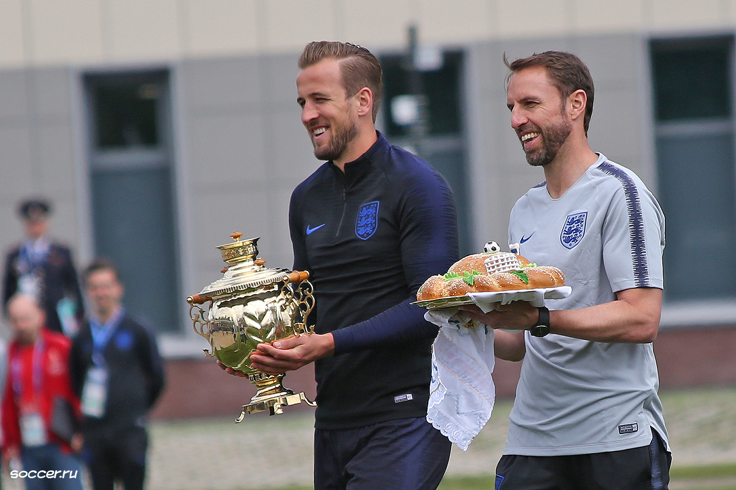 Kane, Southgate receive gifts at first Russia training session